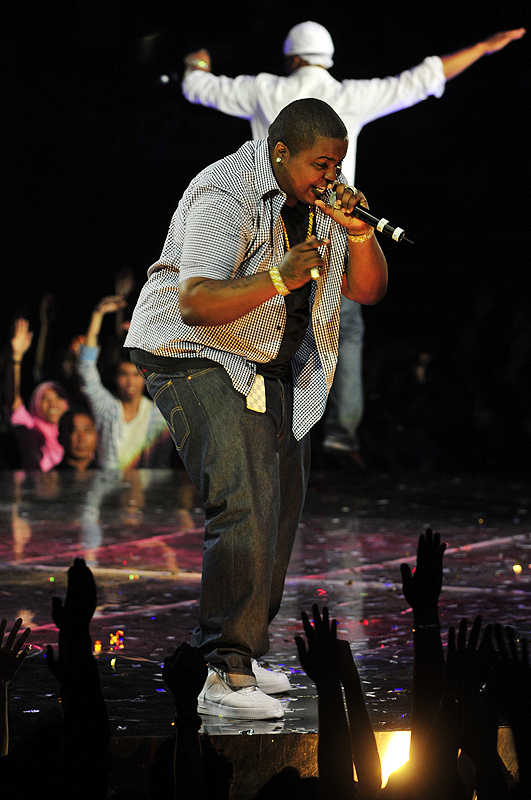 Sean Kingston performing at the 2009 Shout Awards at Stadium Putra Bukit Jalil.